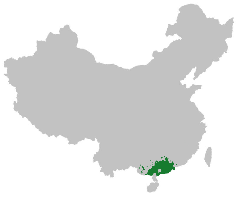 Linguistic maps of Cantonese in China/Taiwan/Hainan